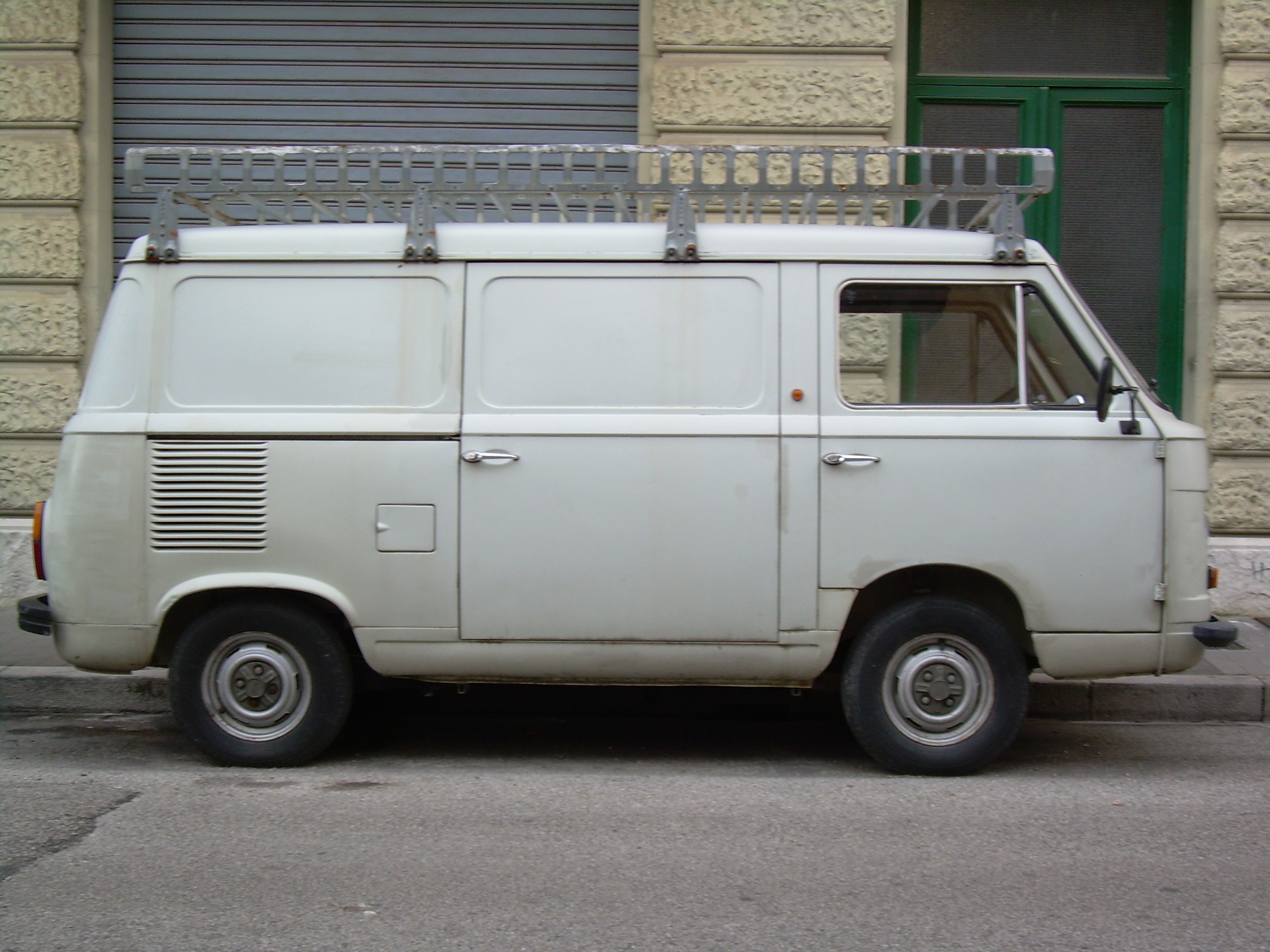 Fiat 900 T